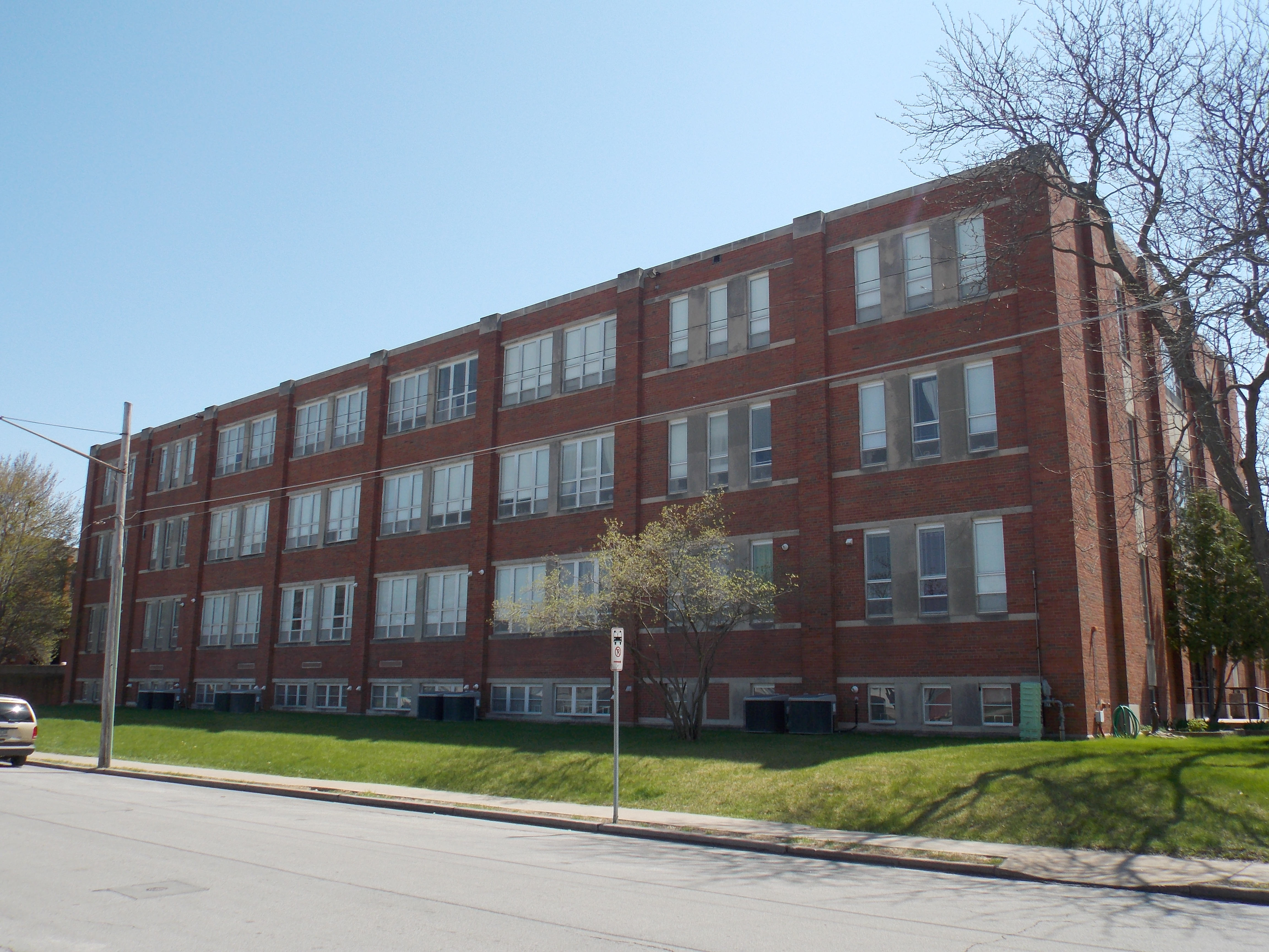 Walsh Hall on the campus of the former Marycrest College in Davenport, Iowa. The campus forms an historic district on the National Register of Historic Places, and now houses apartments for senior citizens.